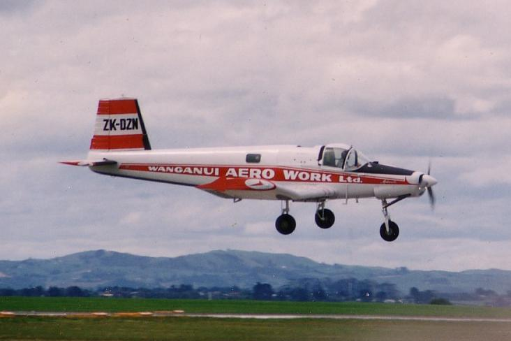 ZK DZN PAC Fletcher Fu 24 a New Zealand Aerial Topdressing aircraft photographed in the early 1990s. this is not a very good photo - anyone with a better shot, please replace it. Winstonwolfe 04:10, 20 June 2007 (UTC)